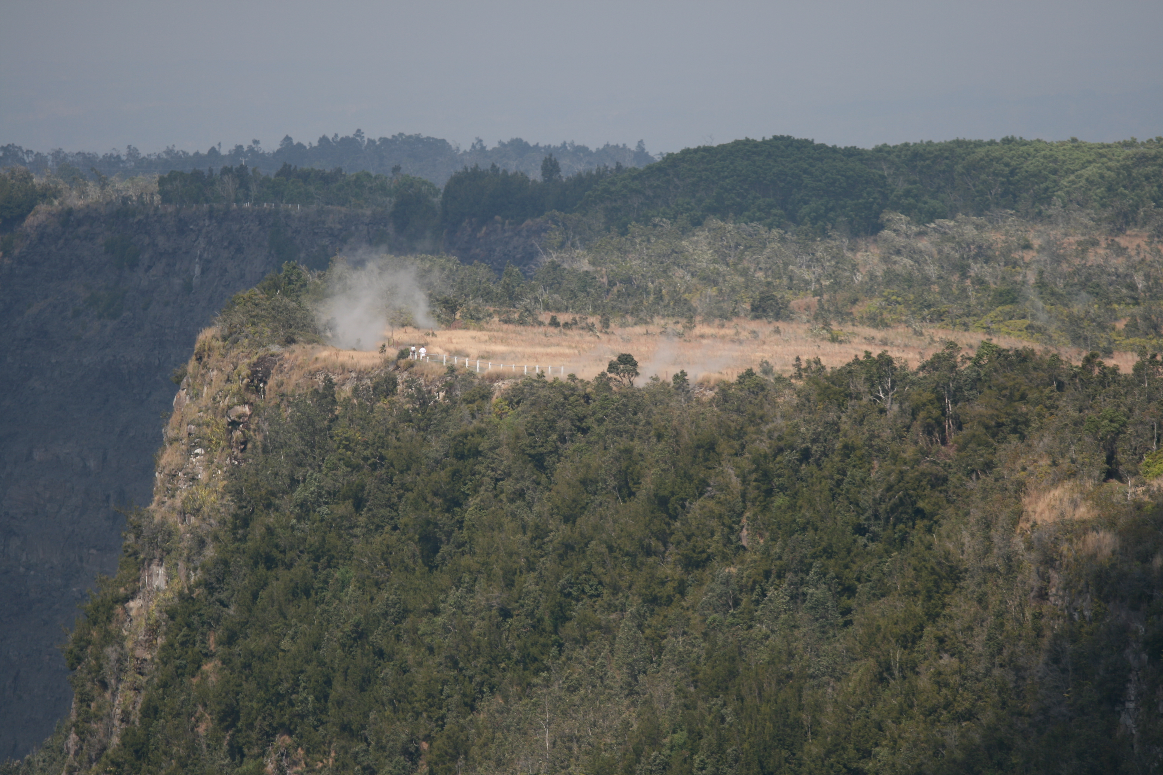 Steaming Bluff from Volcano House, Kilauea, Hawaii, Unites States